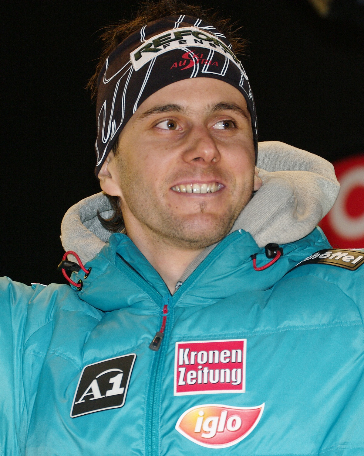 Austrian alpine skier Philipp Schörghofer at the bib draw for the Giant Slalom in Hinterstoder (Austria) on 6 February 2011.